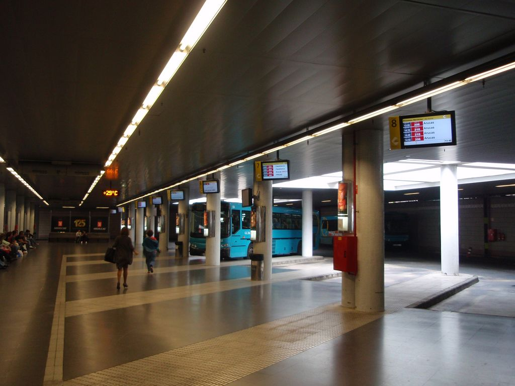 Guaguas Municipales is the public transport in the capital Las Palmas de Gran Canaria